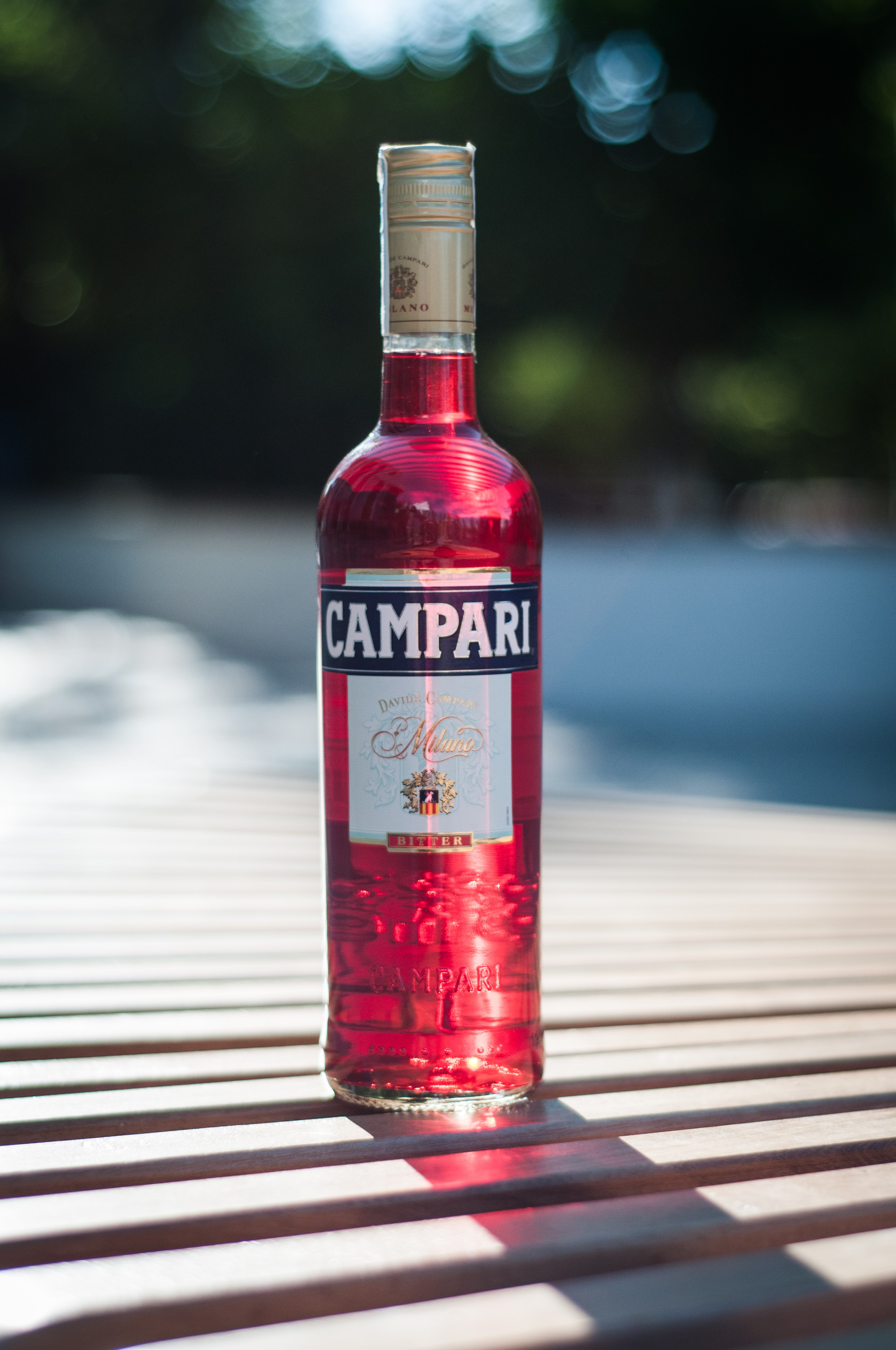 Botella de Campari. Julio 2018.